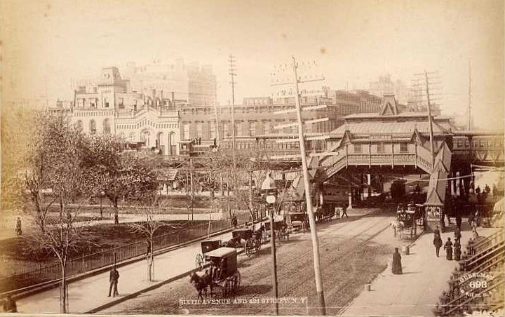 The Sixth avenue el circa 1879 looking west on 42nd street with Bryant Park on the left.